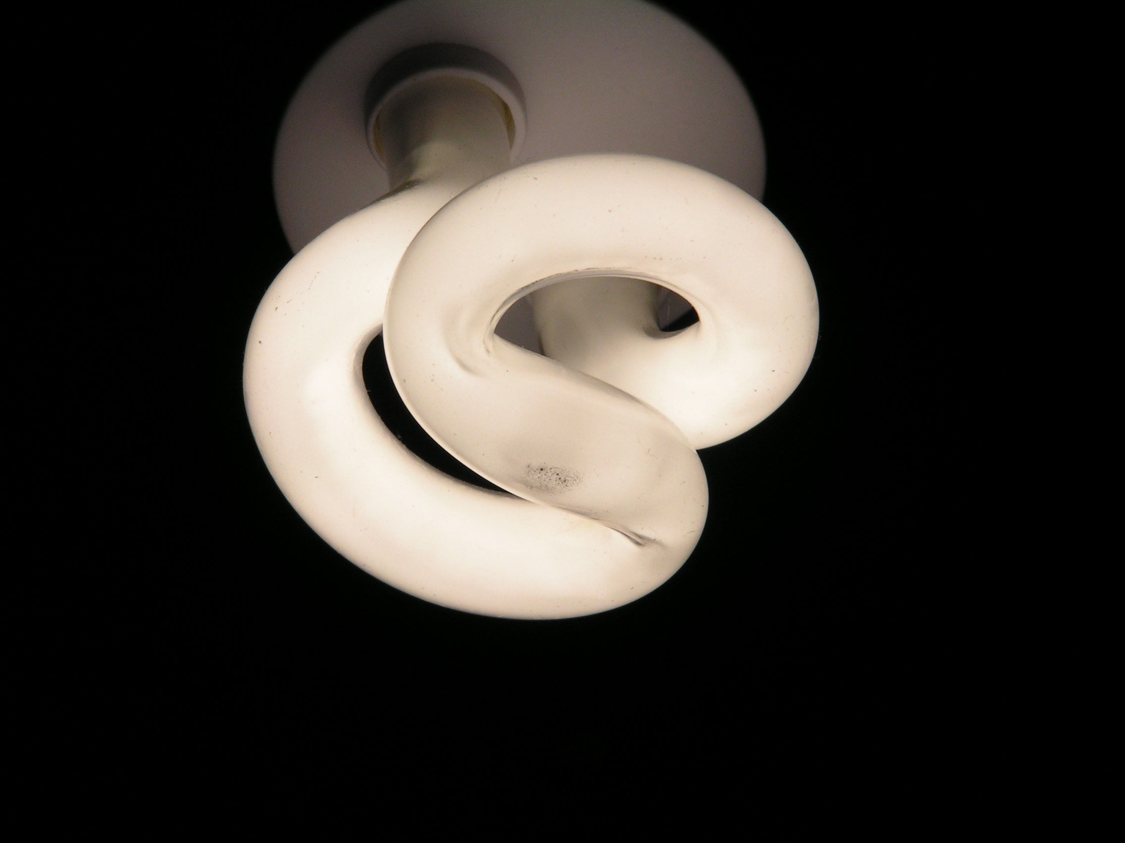 Compact fluorescent light globe